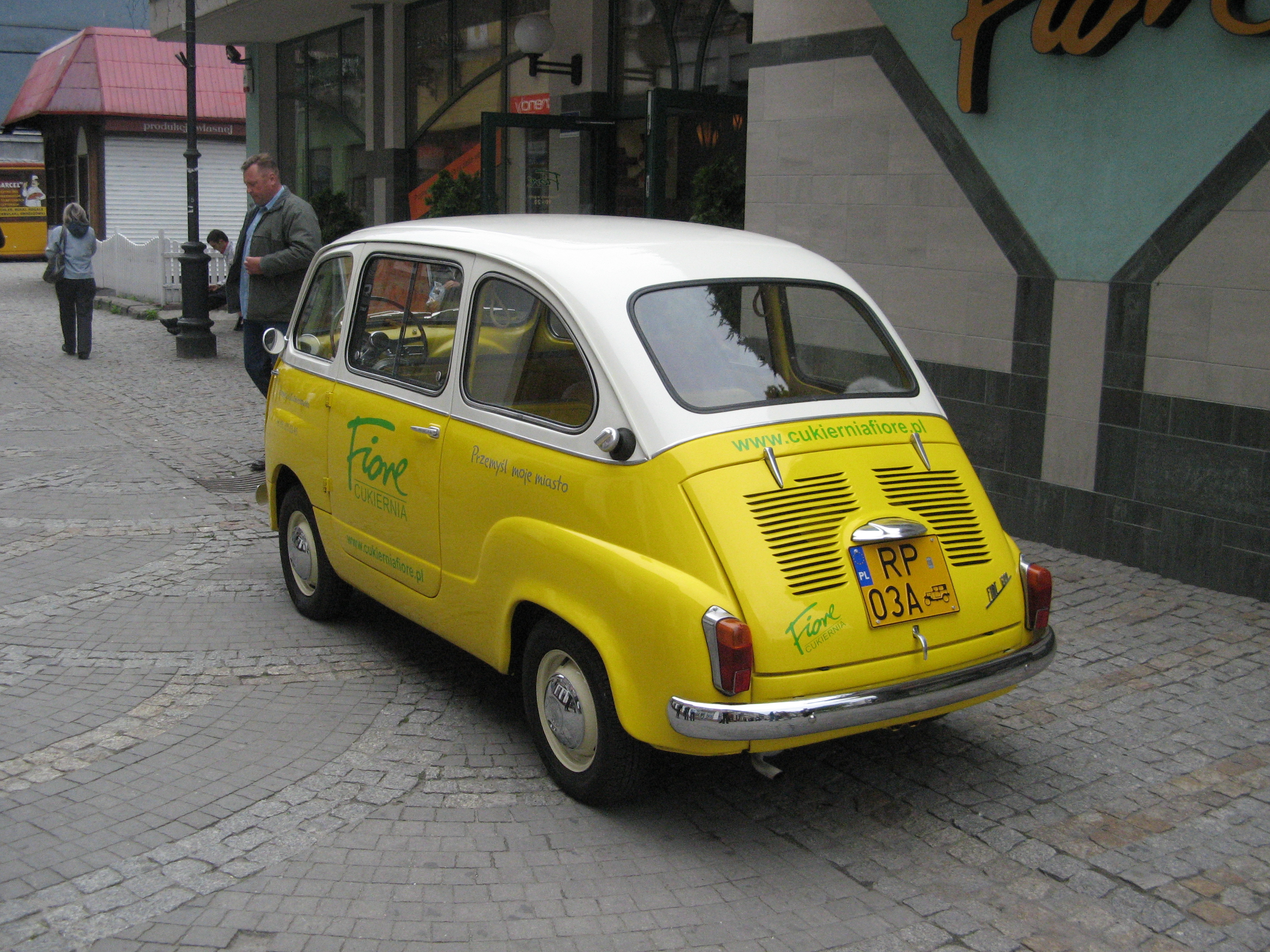 Fiat Multipla (1956) in Przemyśl.